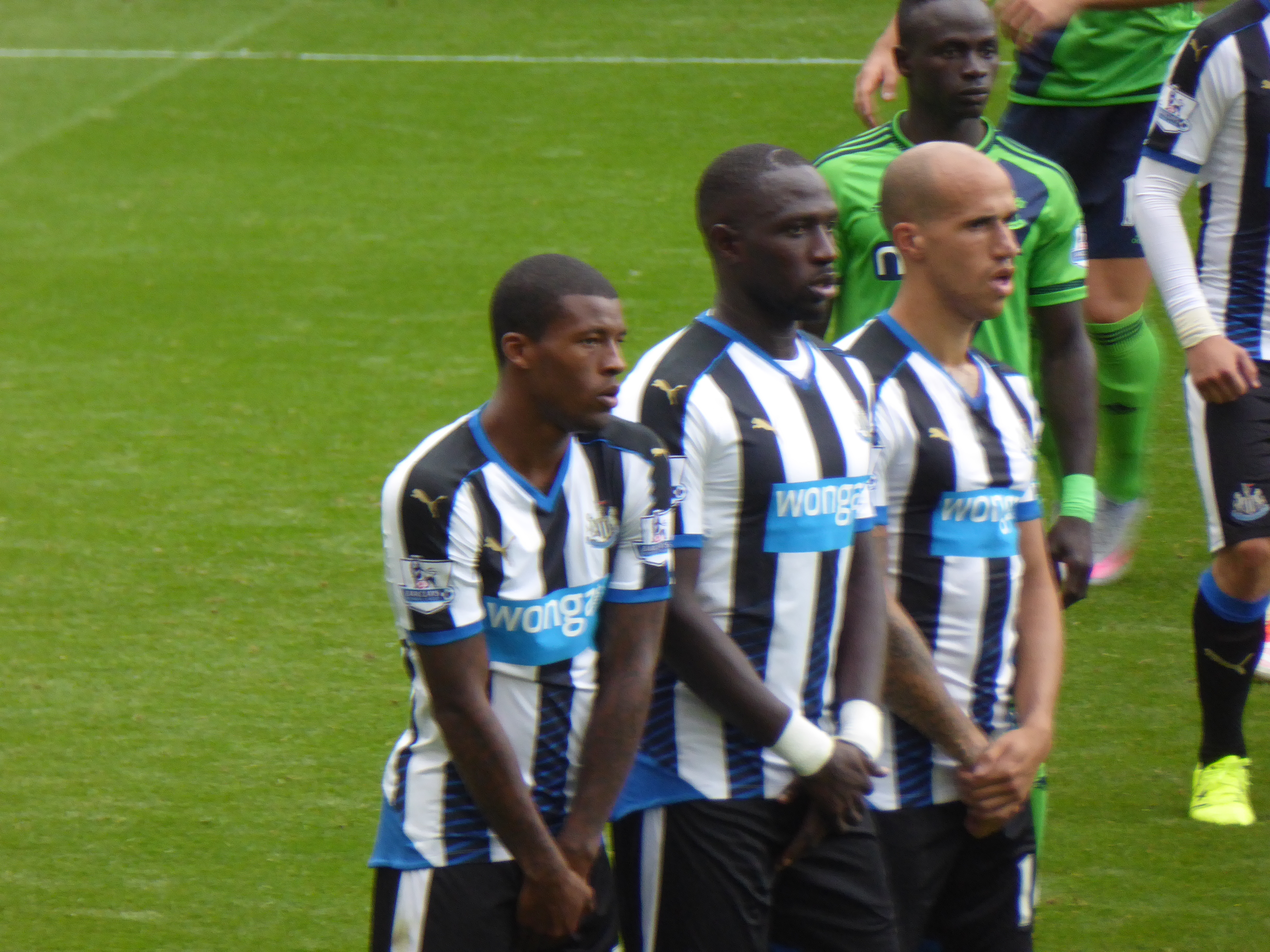 Newcastle United vs Southampton (2-2), St James' Park, Newcastle upon Tyne, Tyne and Wear, England, August 2015